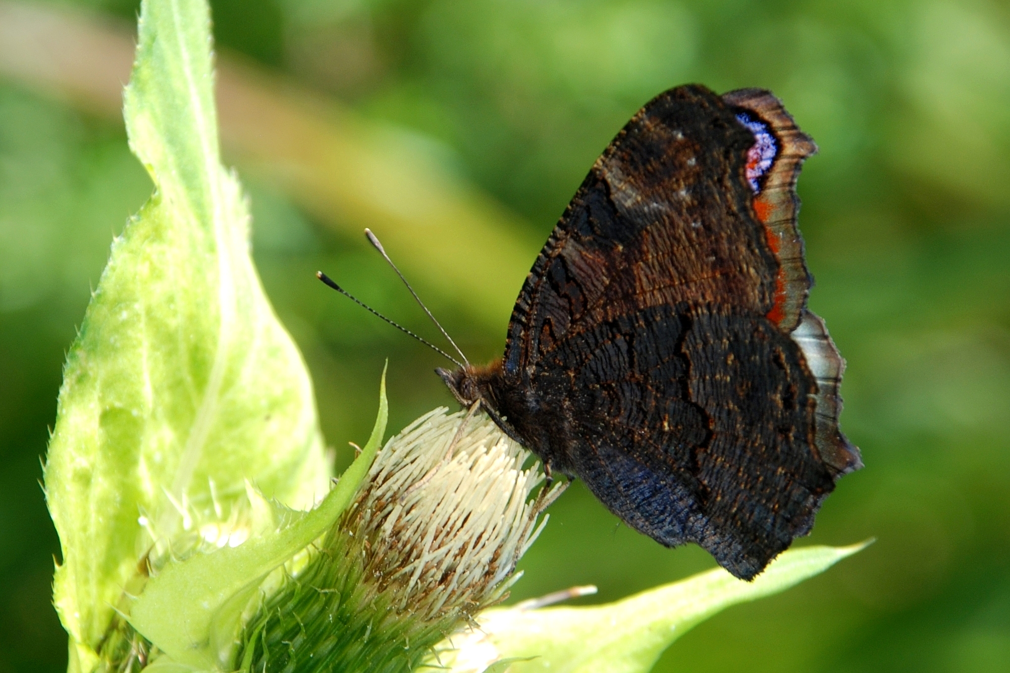 Inachis io in Fuschl am See (Austria)